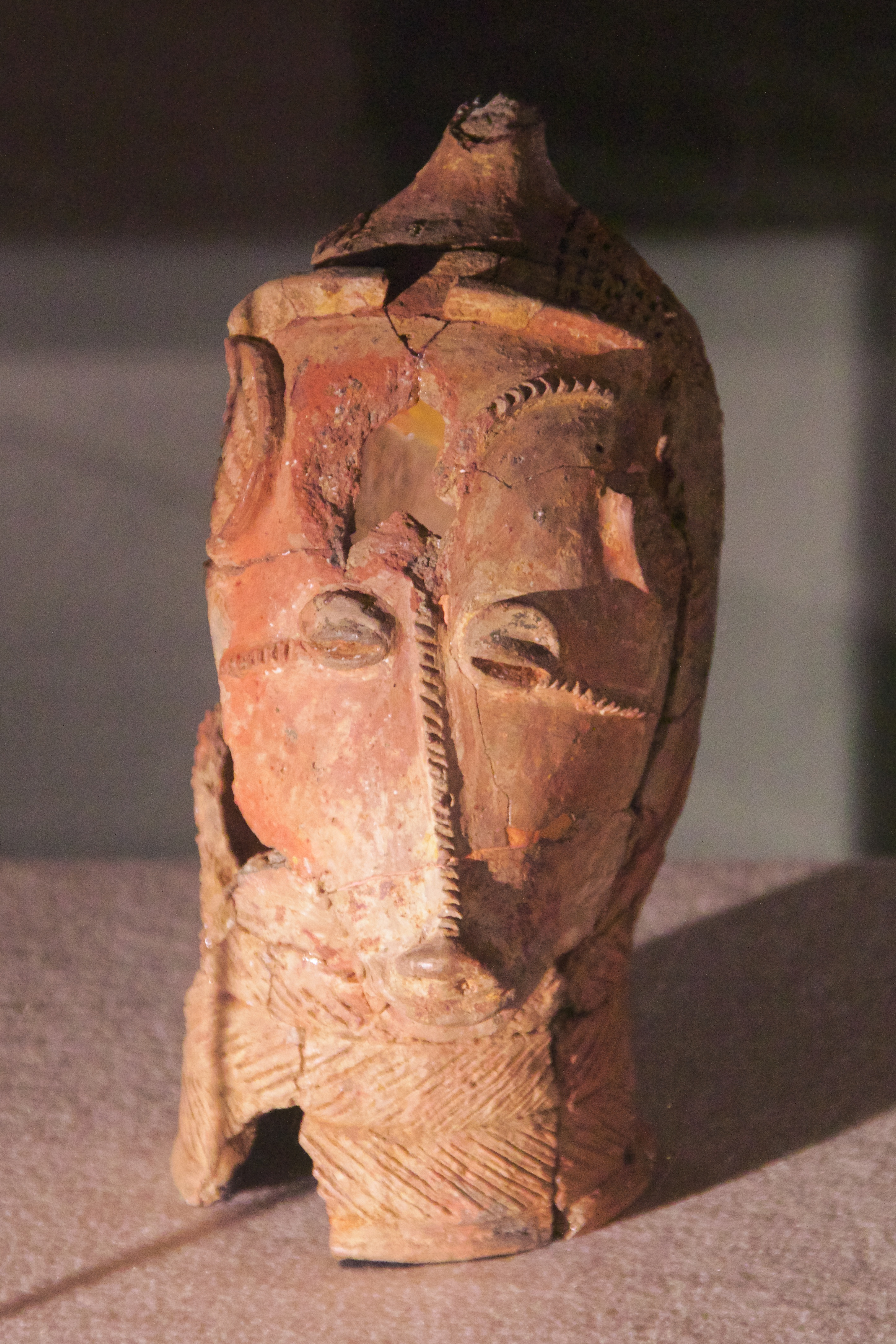 Lydenburg Head. One of seven ceramic heads found near Lydenburg, dated to c. 750. Made in the form of an inverted pot with incised decoration around the next; thought to have been used in the performance of initiation rituals. At the Castle of Good Hope, Cape Town.